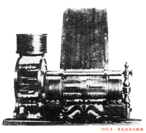 Thomas Elba Edison's first patented invention, an Electric Voting Machine. 湯馬士．艾爾巴．愛迪生第一件嘅專利發明品－－－電氣投票紀錄機。議員只要按檯上面嘅「贊成」或「反對」制，議長就可以睇到票決結果嘅數字。但冇實際用應到。